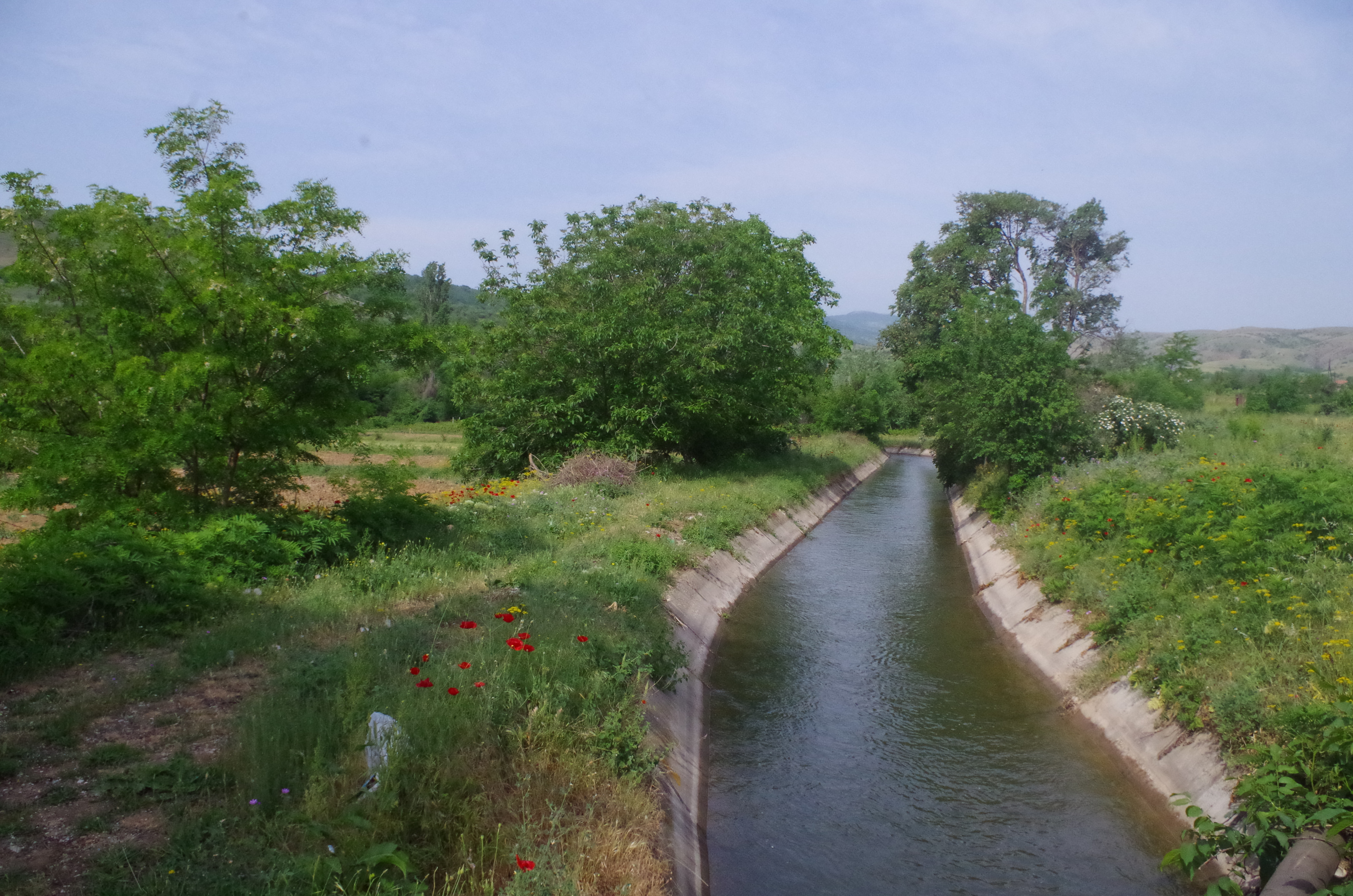 Canal of the Hydrosystem of Tikves, near Sirkovo, Macedonia